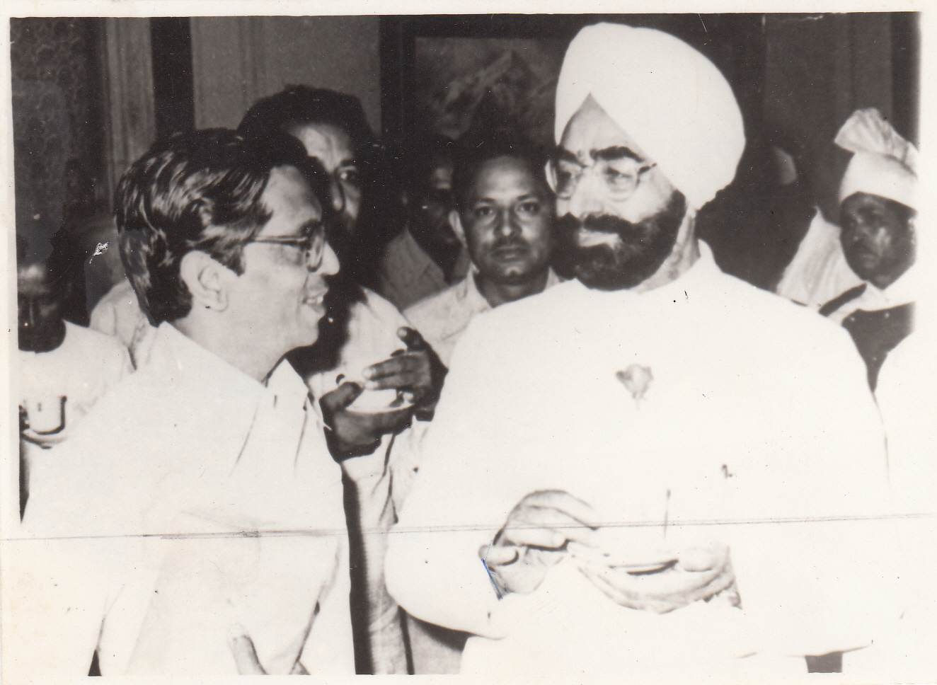 మాజీ రాష్ట్రపతి జ్జ్ఞాని జైల్ సింగ్ తో యాతగిరి శ్రీరామ నరసింహారావు